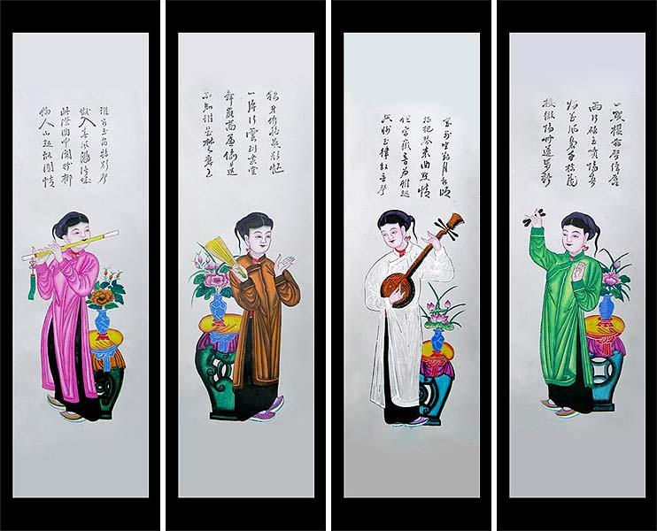 Tứ bình (Four female musicians), a popular example of Hang Trong painting. The author is unknown because this is a traditional genre of painting dated back to the 17th century.